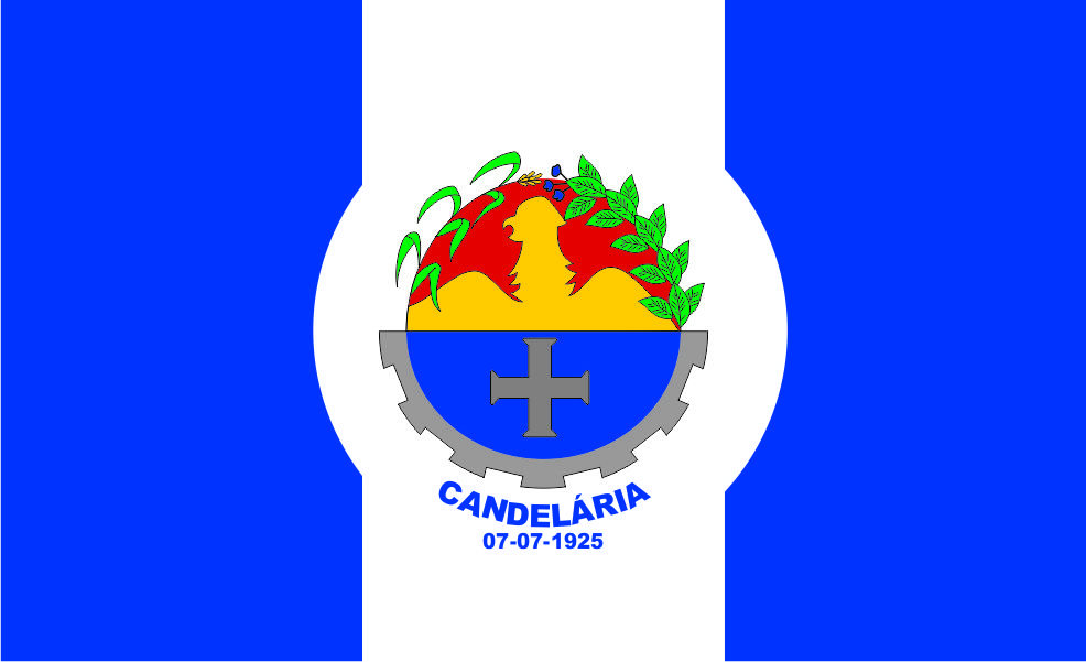 Flag of the city of Candelária, Rio Grande do Sul, Brazil.